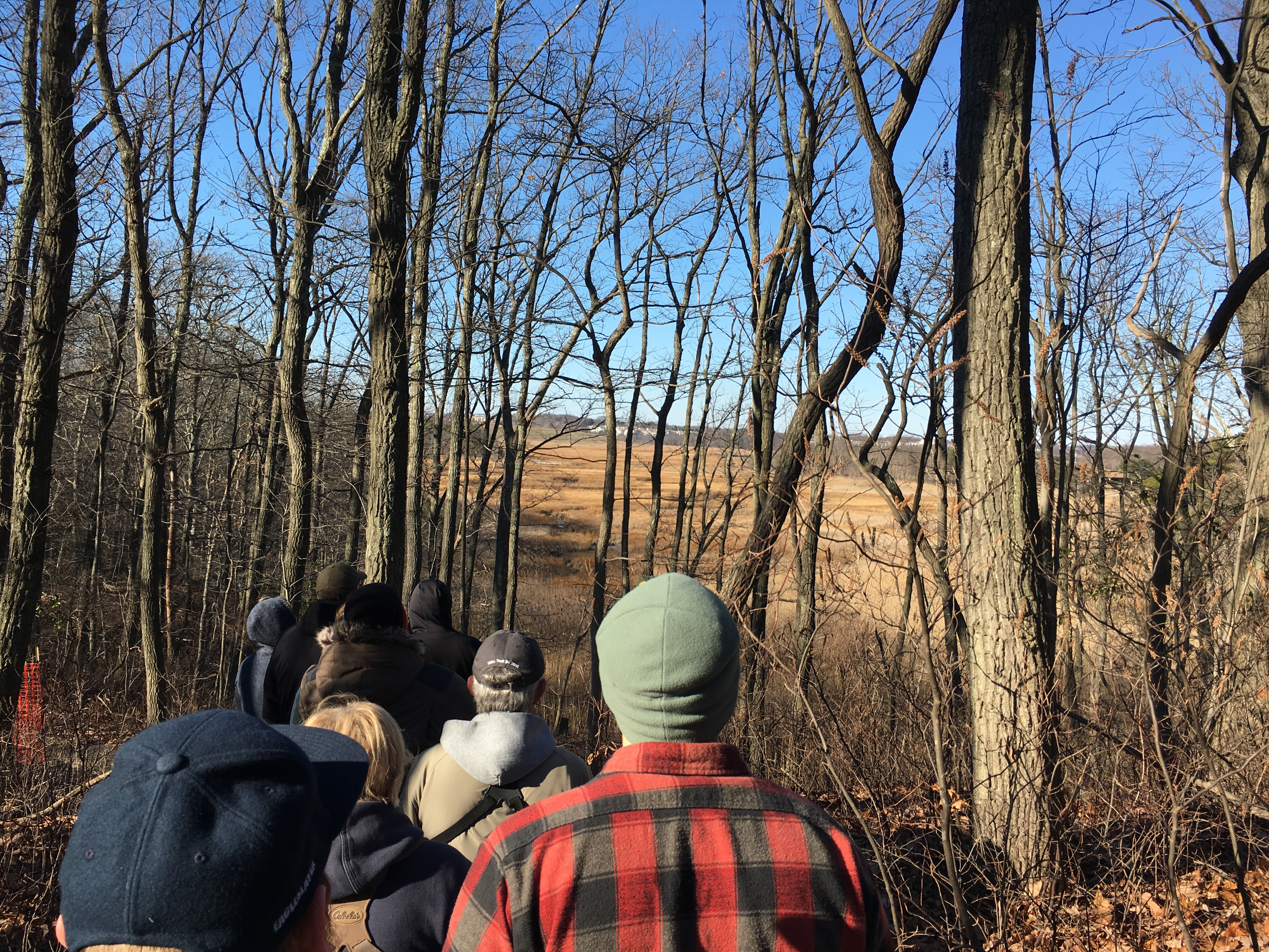 As a First Day Hike in Cheesequake State Park in Middlesex County, New Jersey, progresses, the two terrains of the park can be seen – a hardwood forest overlooking marshes.